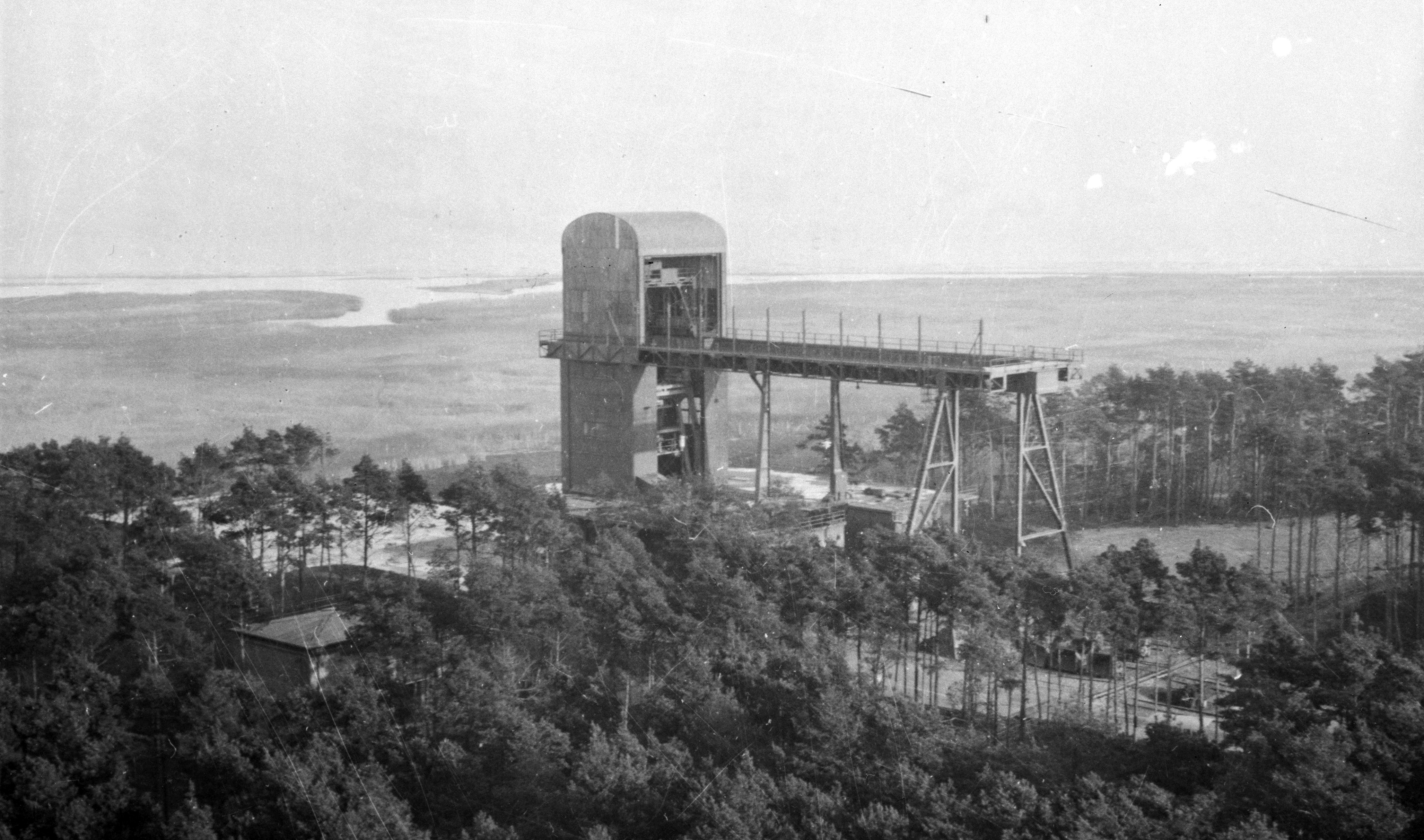 HISTORIC VIEW OF TEST STAND NO. 1 AT PEENEMUENDE A-4 ENGINE AND ROCKET PROPULSION TEST STAND - cropped version